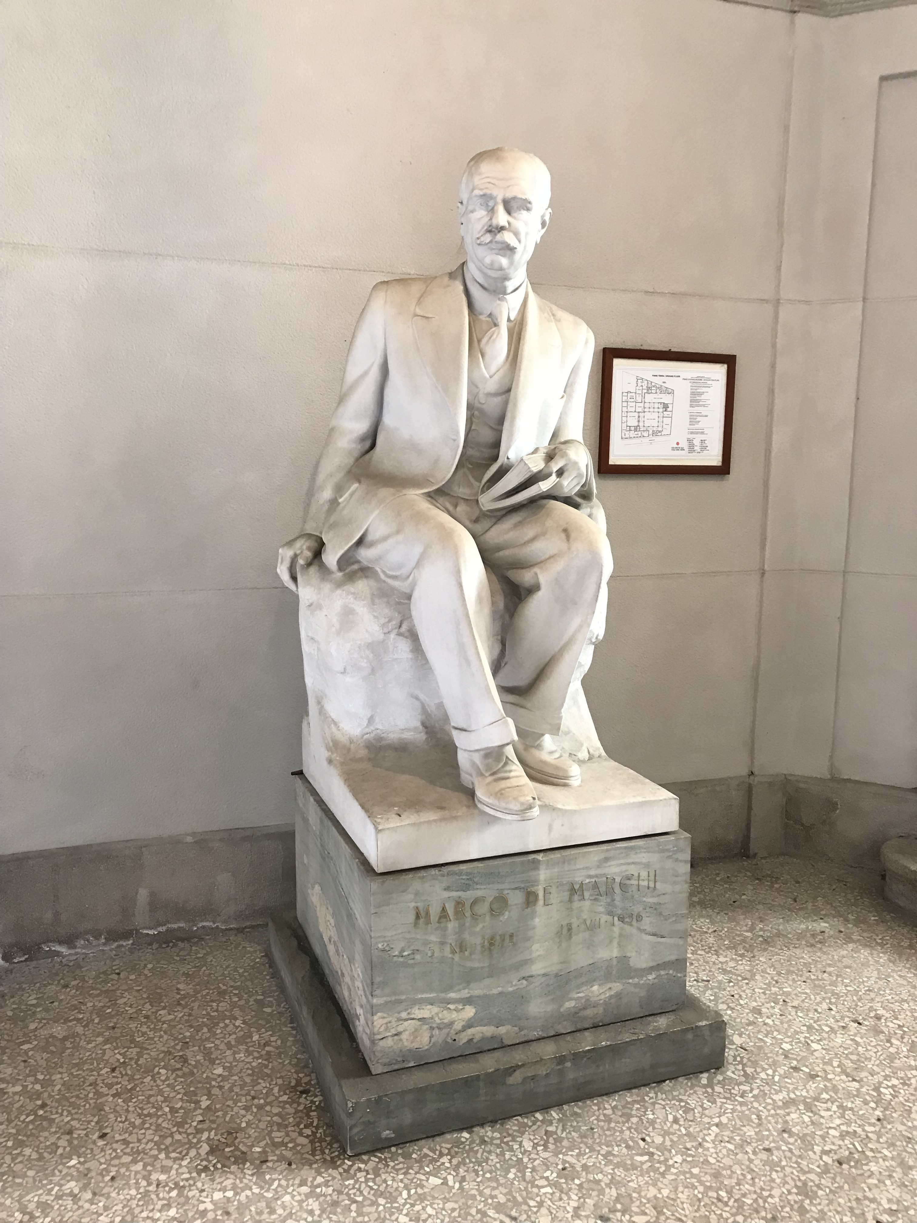 Statue of Italian businessman and naturalist Marco De Marchi (1872-1936), exposed at the Courtyard of the "Museo del Risorgimento" in Milan, Italy